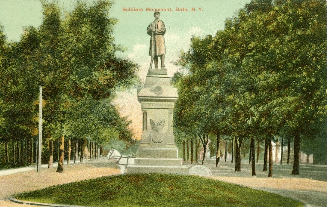 Postcard: "Soldiers Monument, Bath, N.Y."